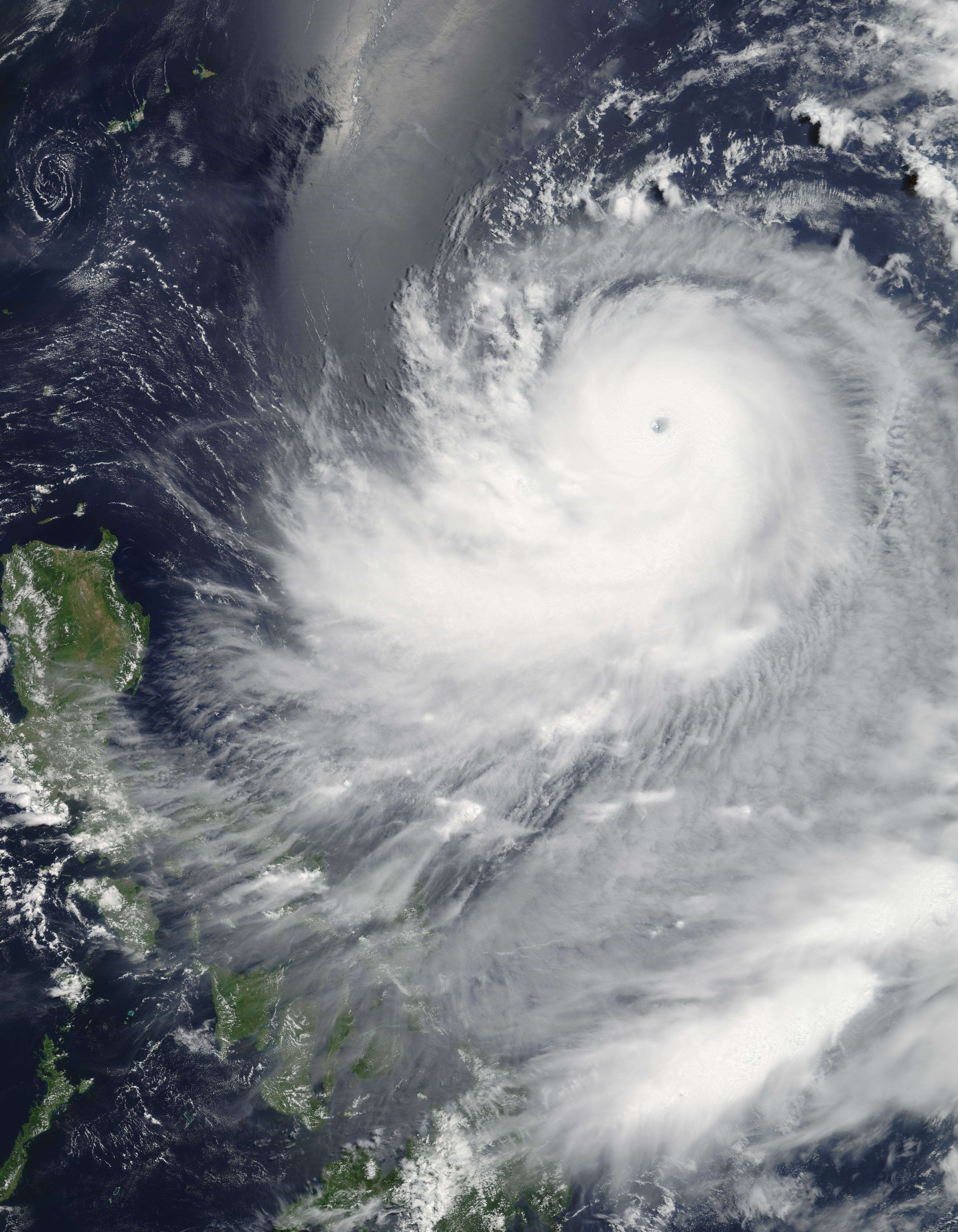 Super Typhoon Ewiniar on July 5, 2006, as a category 3 typhoon.